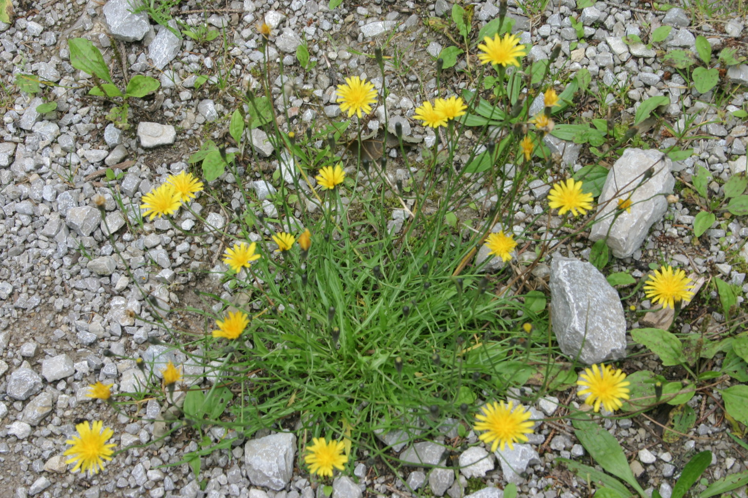 Scorzoneroides autumnalis